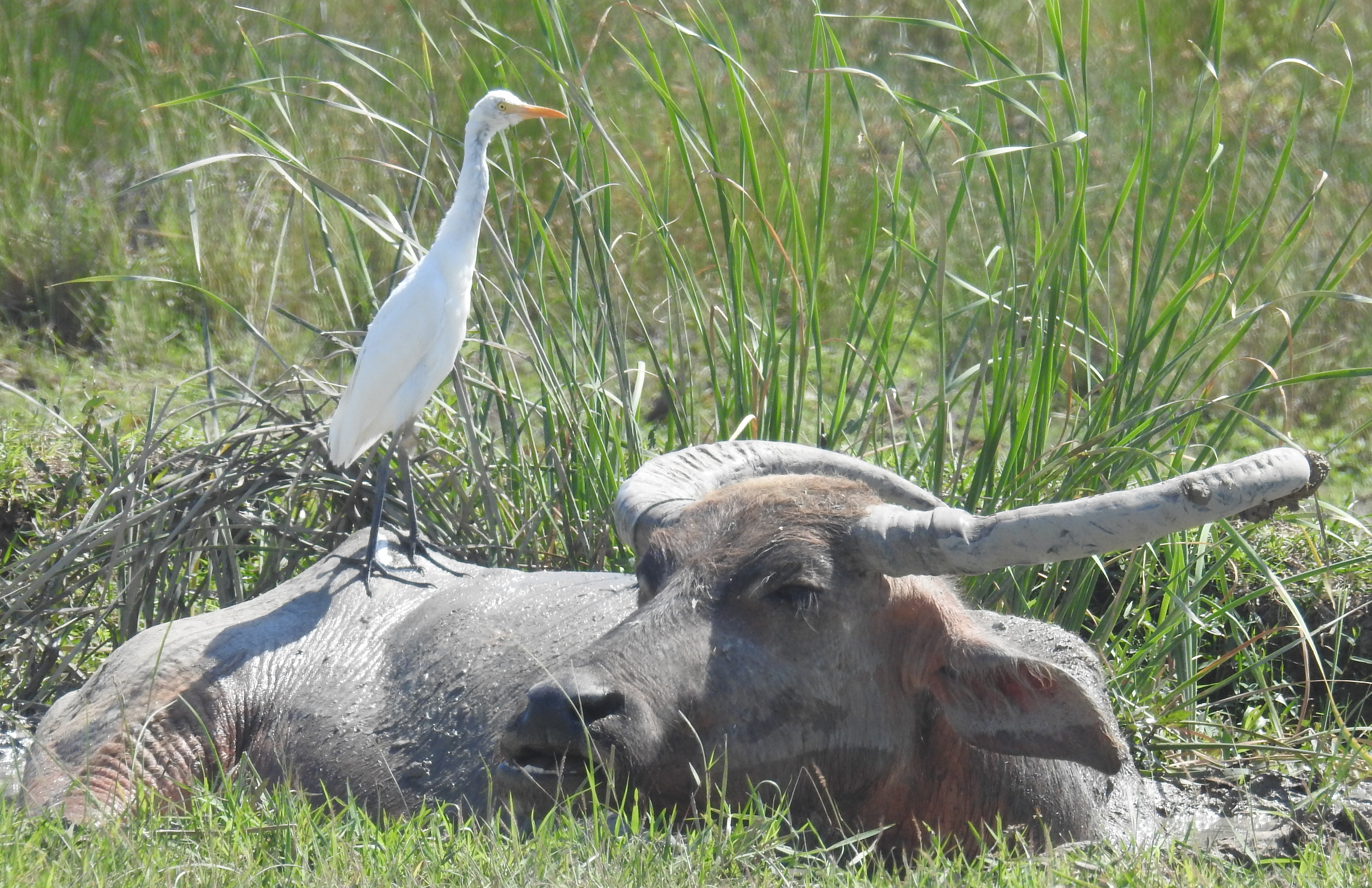 Cattle Egret on a Water Buffalo at edge of ricefields at Buruma near Baucau